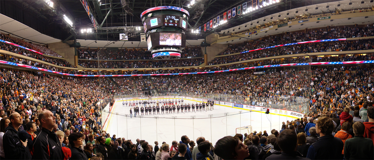 Playing of the Star Spangled Banner prior to the 2009 Minnesota Boys High School Hockey Championship game between Eden Prairie and Moorhead at the Xcel Energy Center.